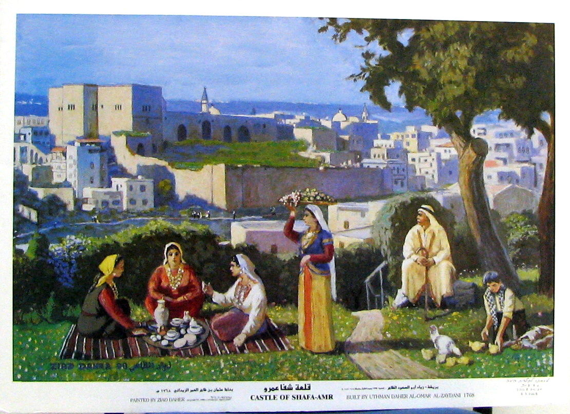 A painting of the Castle of Shefa-'Amr, built by Uthman bin Daher al-Omar al-Zaydany in 1768.